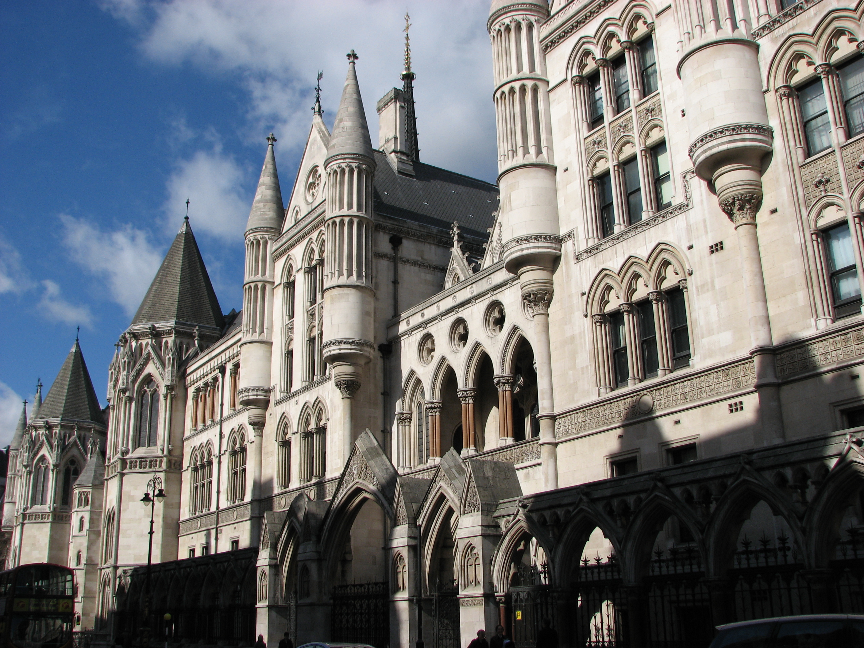 Royal Courts of Justice, London